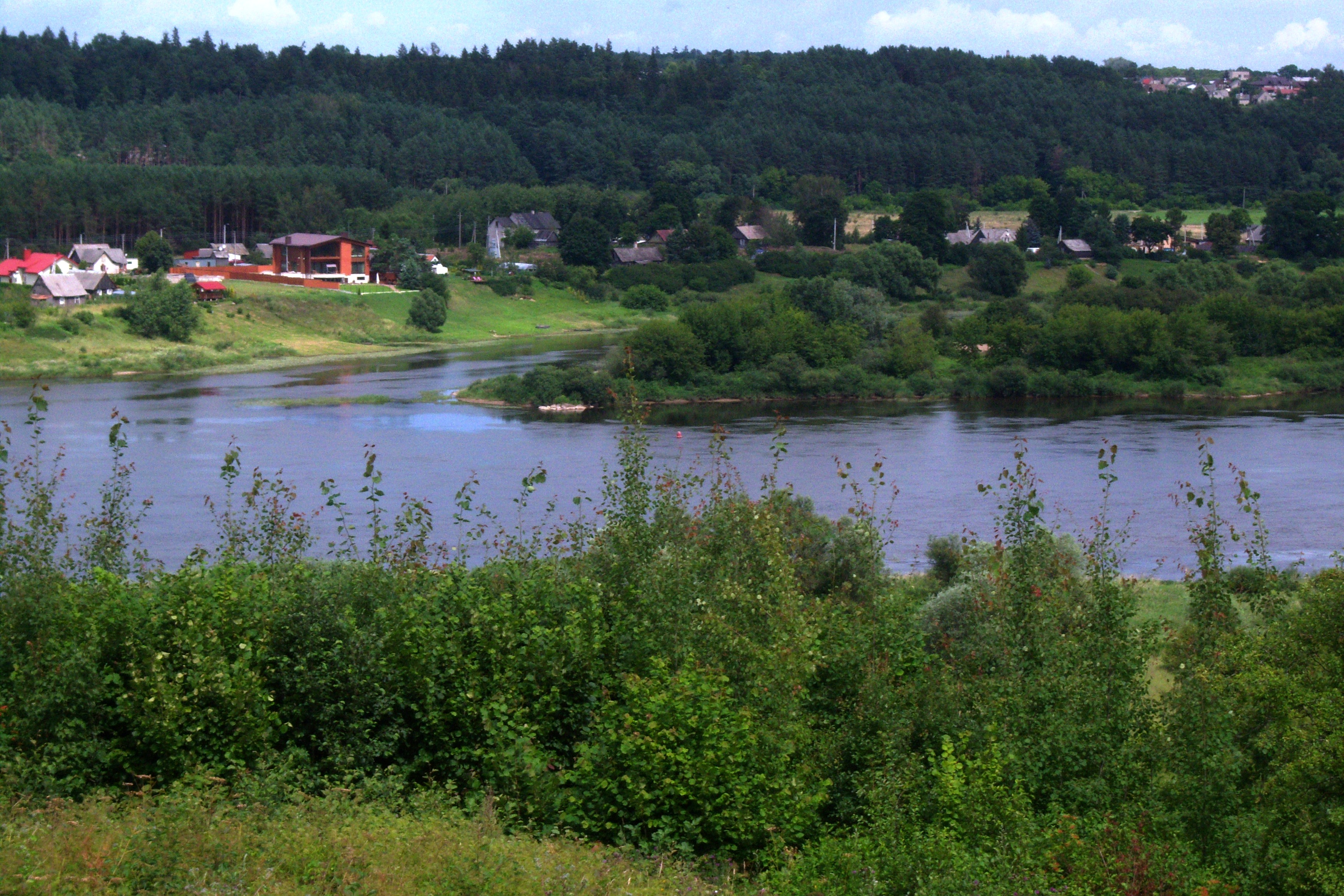 Confluence of Nevėžis and Nemunas rivers, view from Pypliai hillfort, Kaunas district, Lithuania